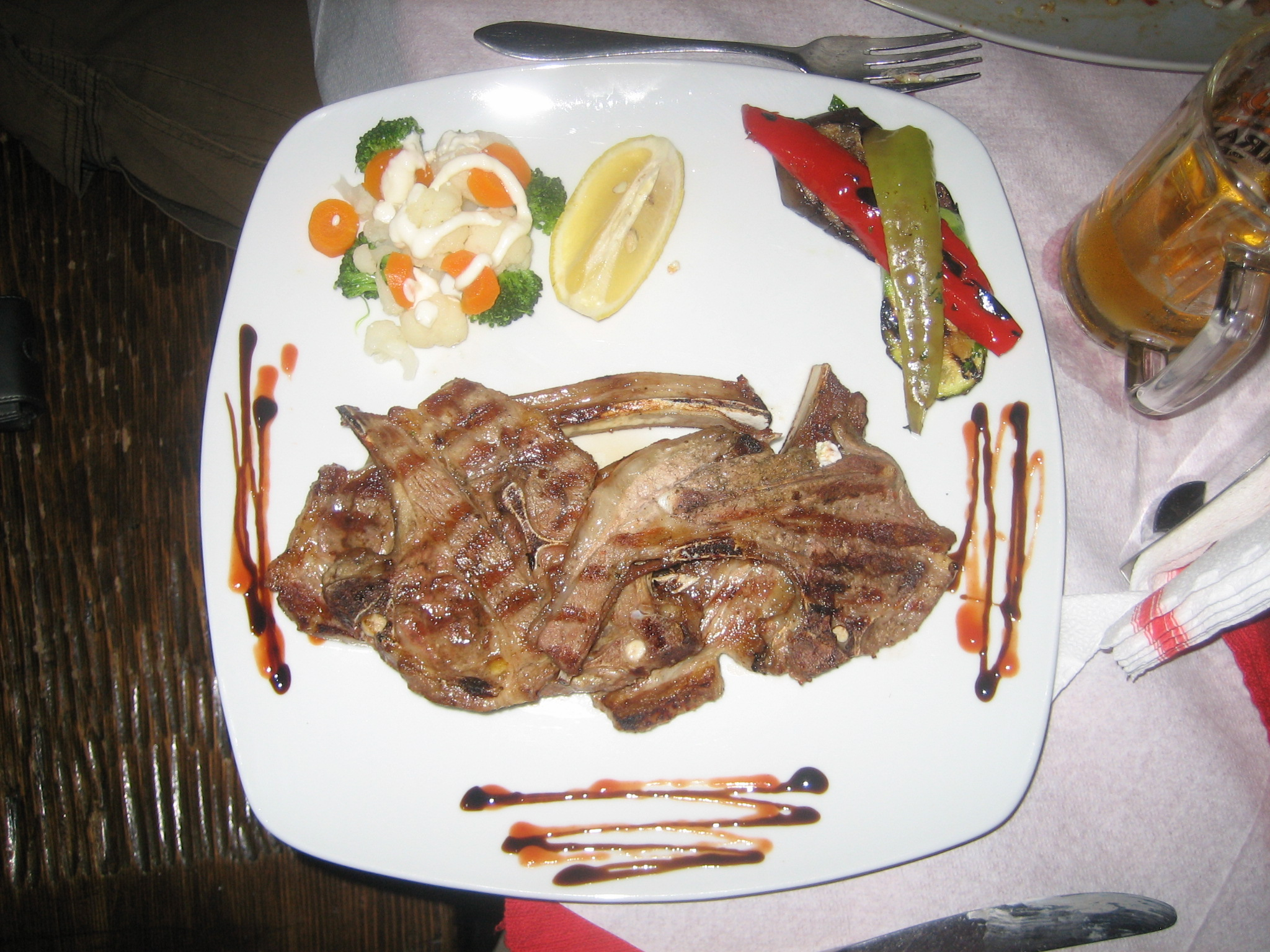 Lamb chops in restaurant Era in Tirana, Albania